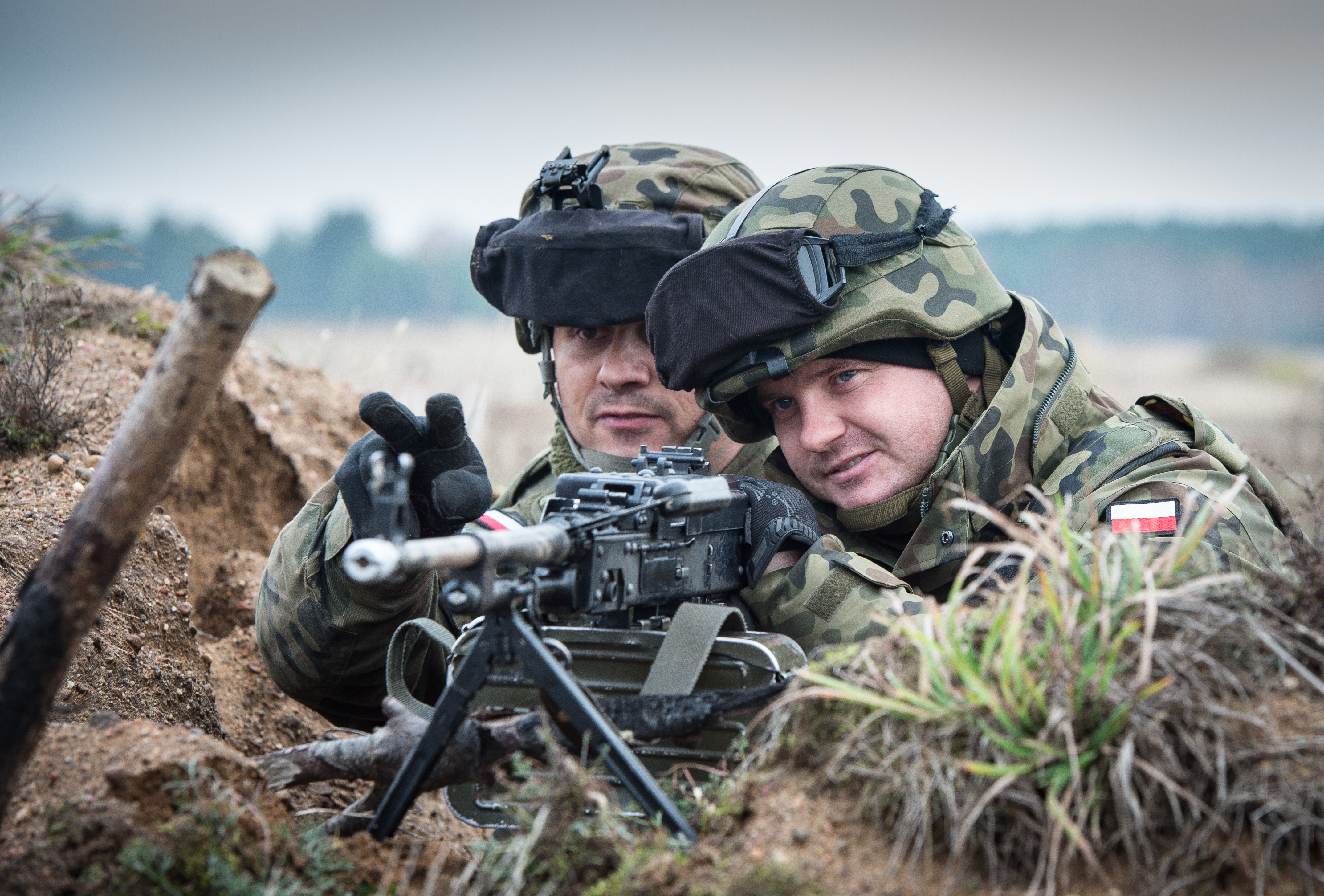 Crew of a Polish Wolvarine Armoured Personnel Carrier practice demounting and taking up defencive positions during a live fire exercise on Exercise Steadfast Jazz at the Drawsko Pomorskie Training Area, Poland, on Nov. 6, 2013. Exercise Steadfast Jazz 2013 is taking place from 1-9 November in a number of Alliance nations including the Baltic States and Poland. The purpose of the exercise is to train and test the NATO Response Force, a highly ready and technologically advanced multinational force made up of land, air, maritime and special forces components that the Alliance can deploy quickly wherever needed. The Steadfast series of exercises are part of NATO’s efforts to maintain connected and interoperable forces at a high-level of readiness. (NATO photo/SSgt Ian Houlding GBR Army)